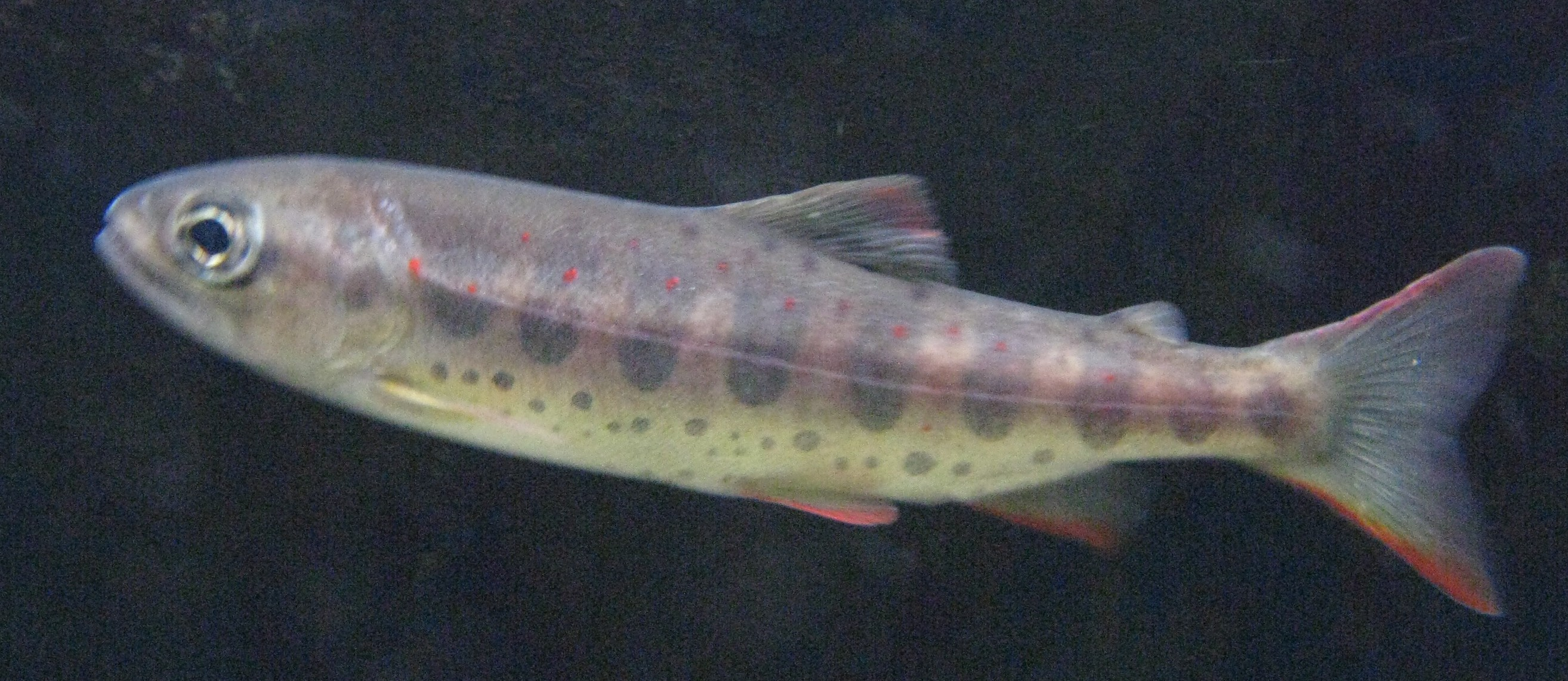 Scientific name Oncorhynchus masou ishikawae